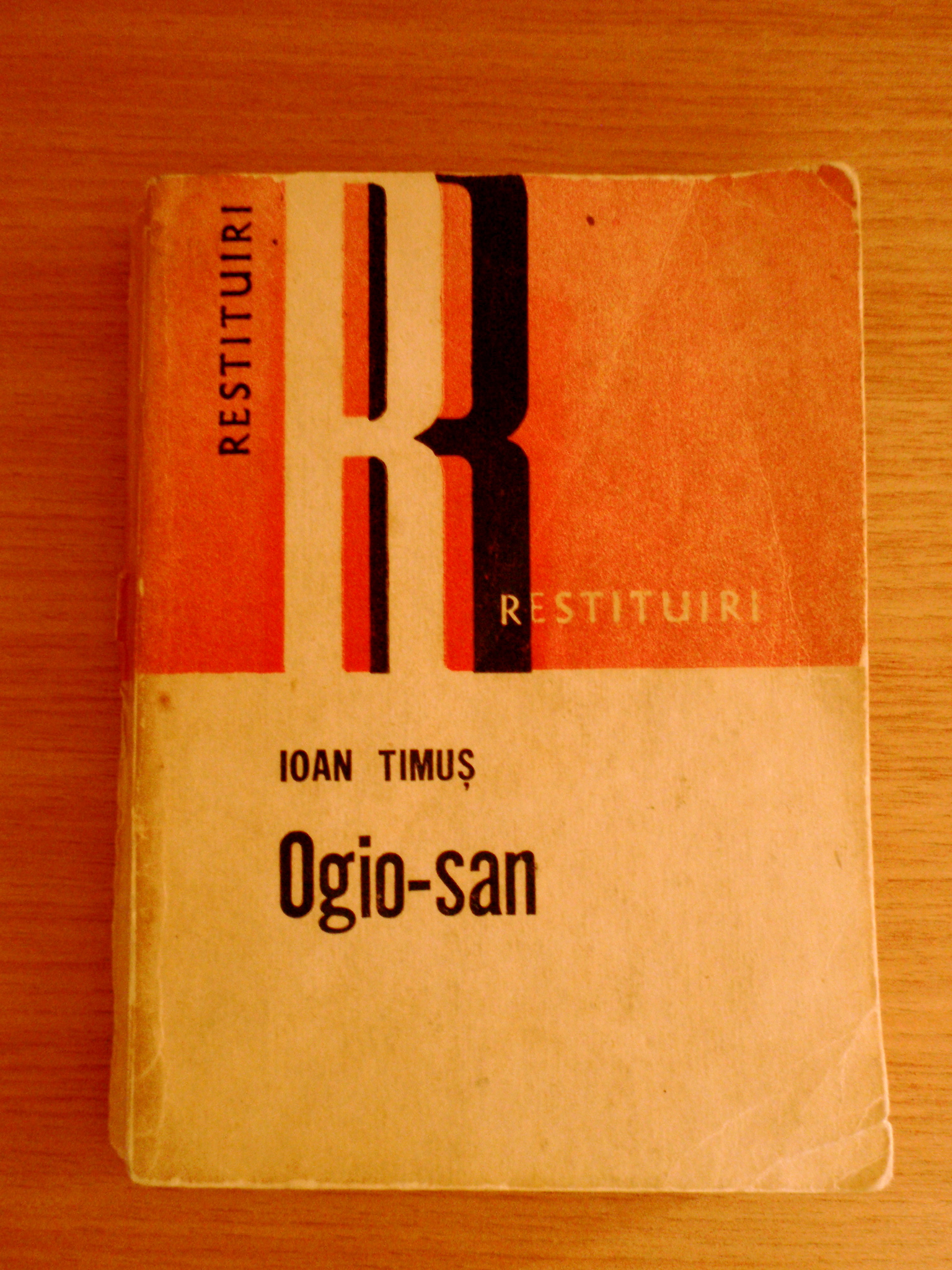 Book cover